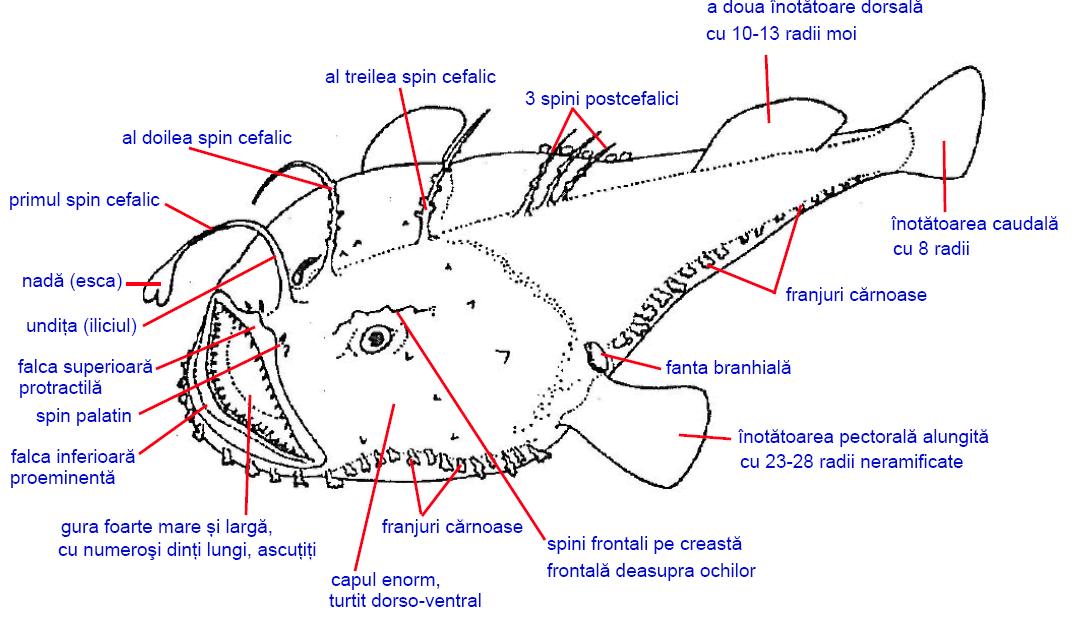 Lophius piscatorius